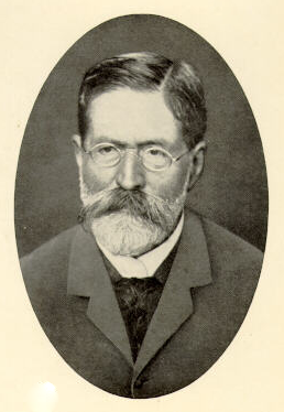 Alfred Hegar (1830–1914), German gynaecologist